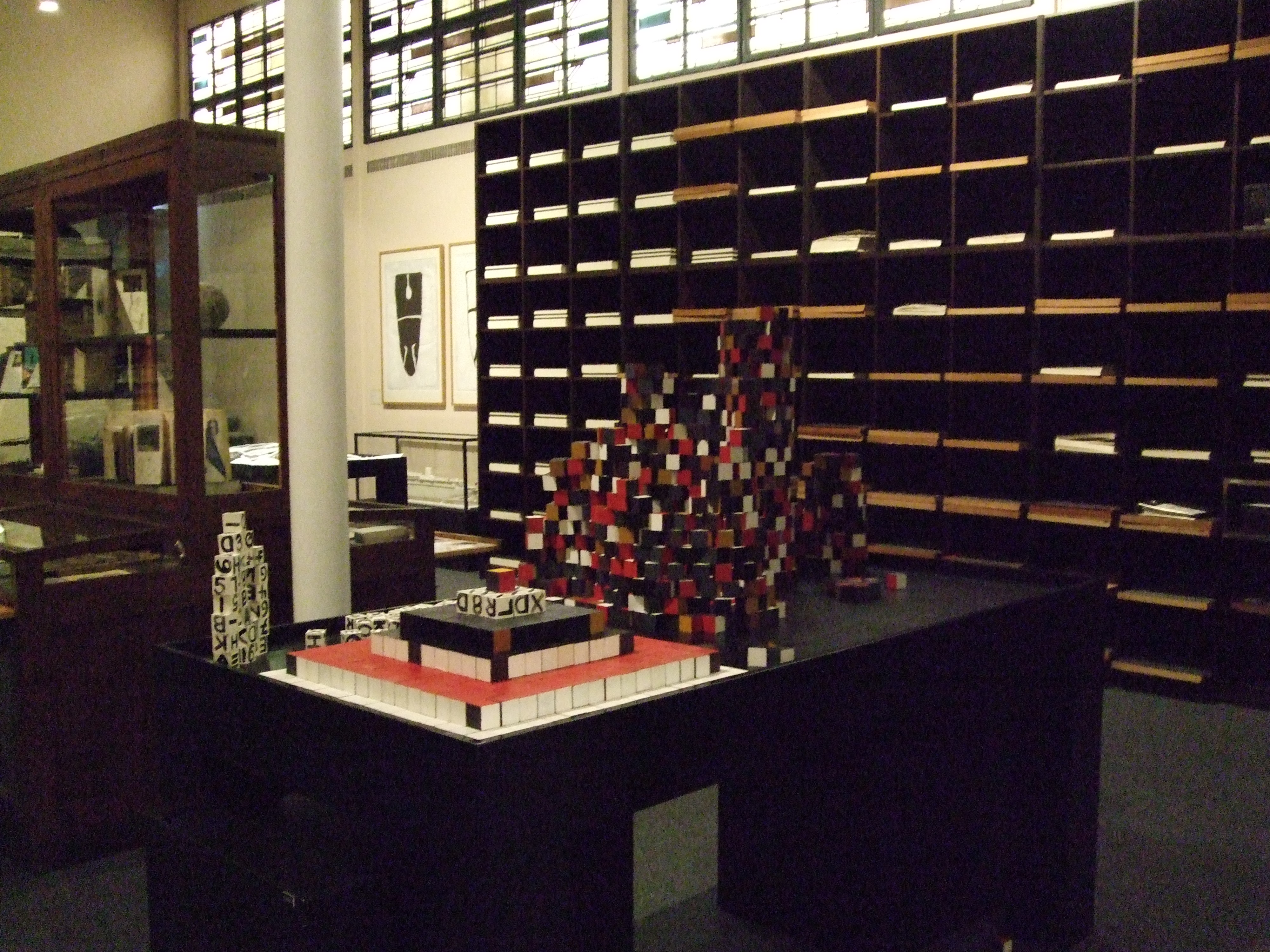 Room with archived memories of people